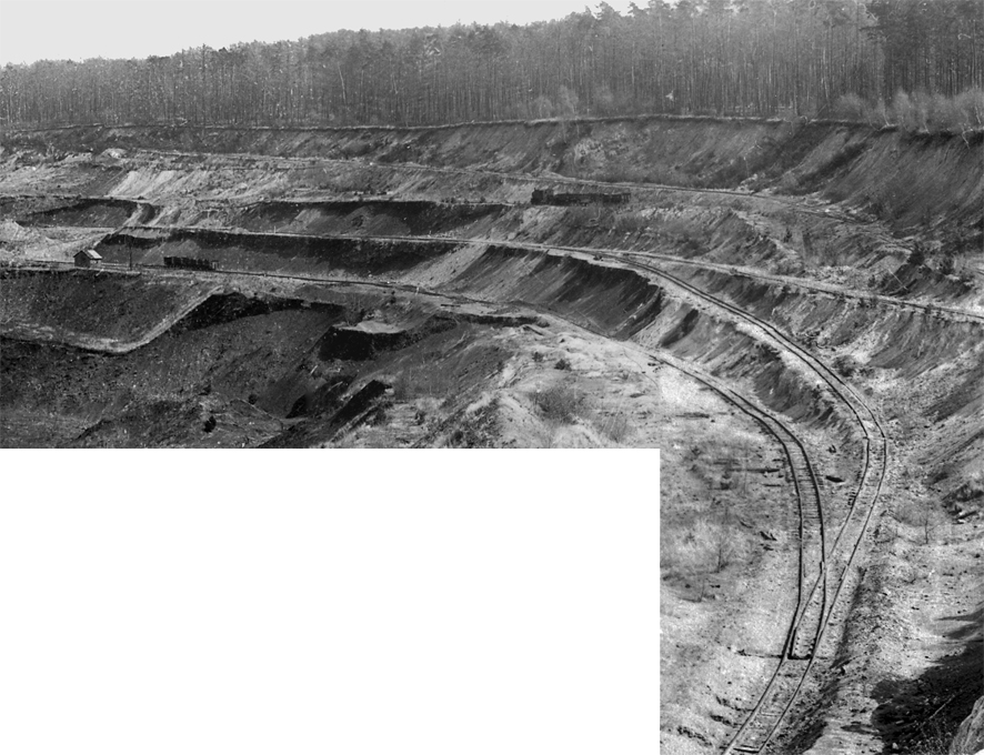 Zig zag of narrow gauge railway in Messel mine, Hessen, Germany